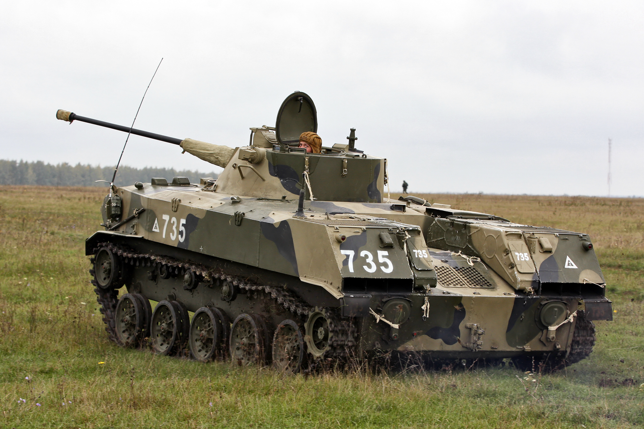 BMD-2 adjustable suspension is in the lowest and middle positions